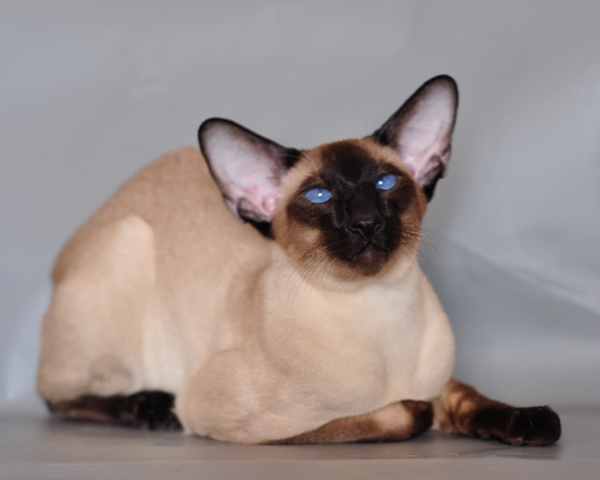 Atual Siamese cat Meekahoo Vaillante Grand (Meekahoo cattery), born: 06.04.2010